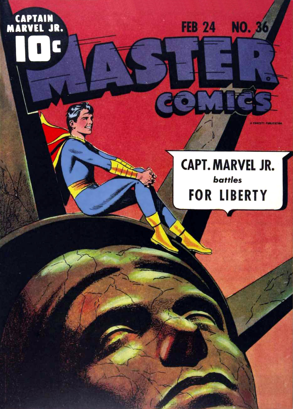 Cover of Fawcett Publications' Master Comics, number 36, February 1943, featuring Captain Marvel Jr. Image is in the public domain due to lapsed copyright.